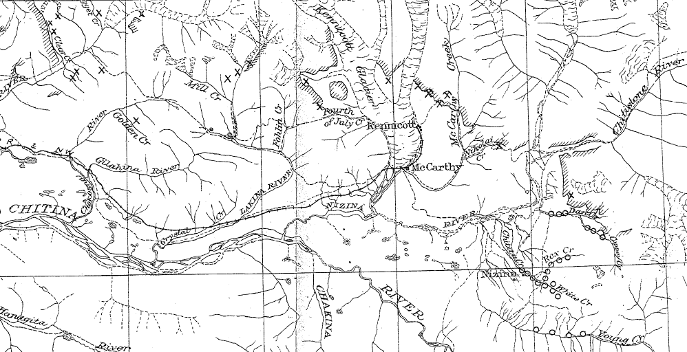 McCarthy, Alaska